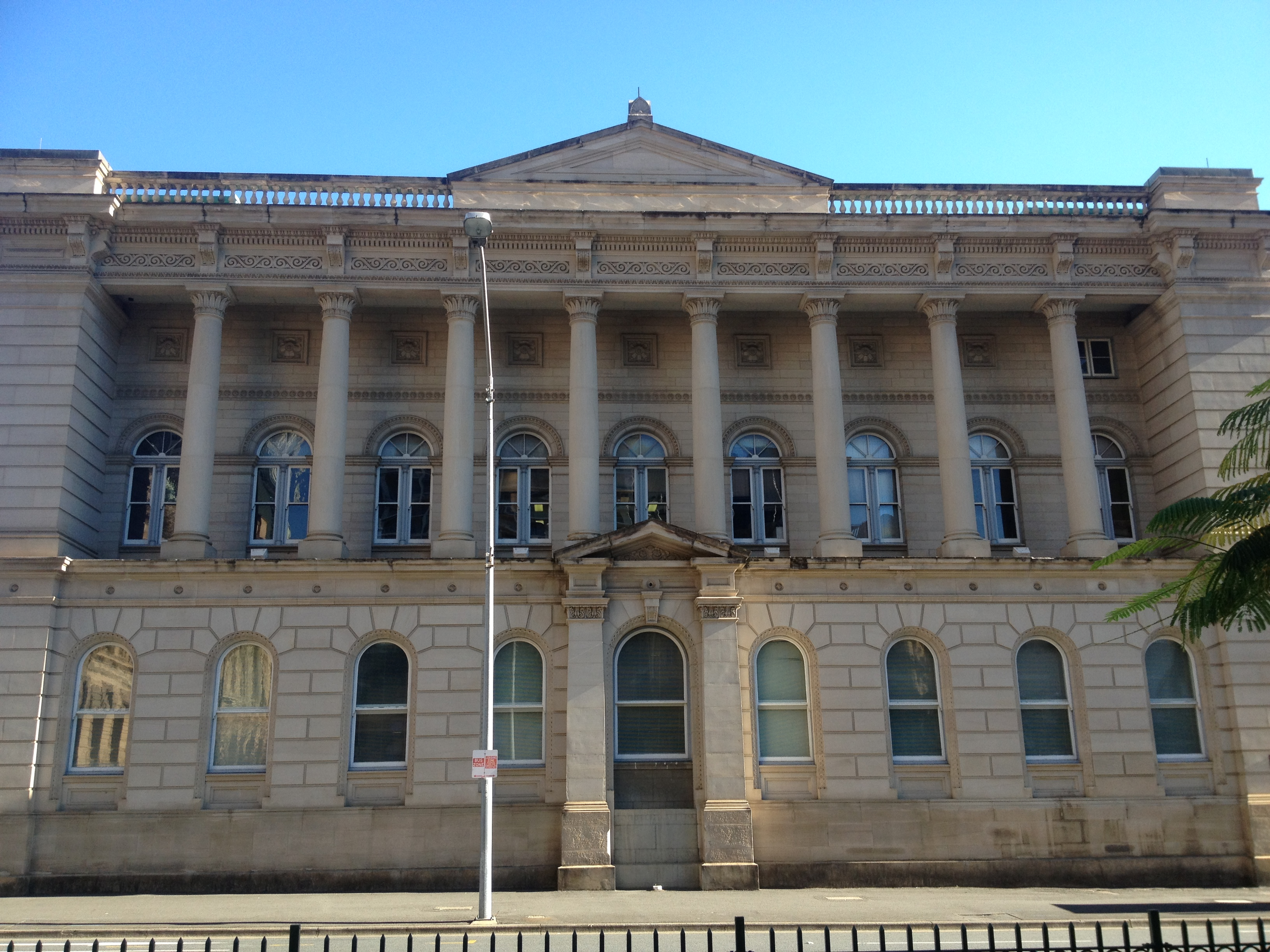 Old State Library of Queensland building at 159 William Street, Brisbane, 07.2013